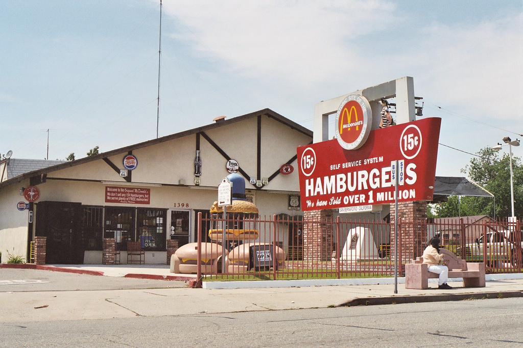 Old McDonald's fast food restaurant, now non-official museum